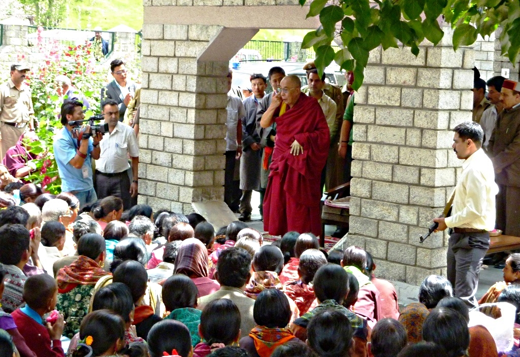 I took this photo on a trip through Lahaul to Ladakh in August, 2010